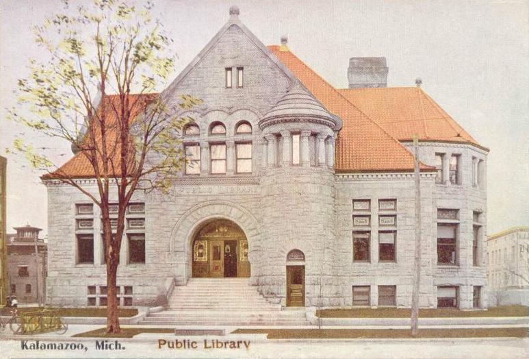 Old Public Library, Kalamazoo, Michigan; from a 1908 postcard published by the Star Paper Company, Kalamazoo, Michigan. Completed in 1893, it was razed in 1957.